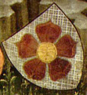 Coats of arms of the house of Rosenberg